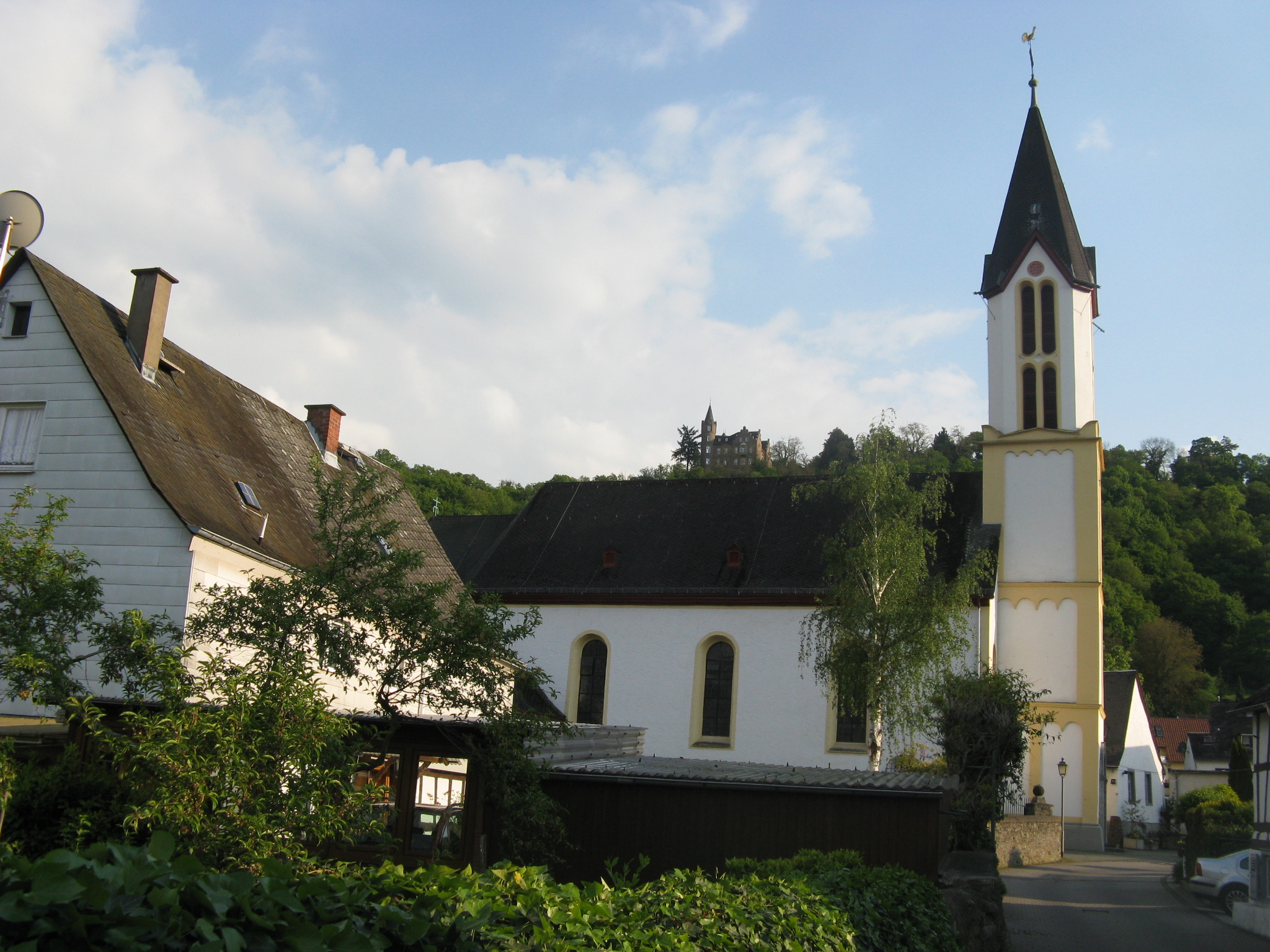 Osterspai, Rhine Valley/Germany, St. Martin's Church